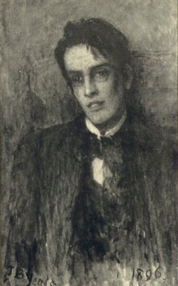 Portrait of W.B. Yeats by his father John Butler Yeats. Frontispiece to W.B. Yeats Celtic Twilight, first published 1896, reissued 1902. Published by A.H. Bullen, London.